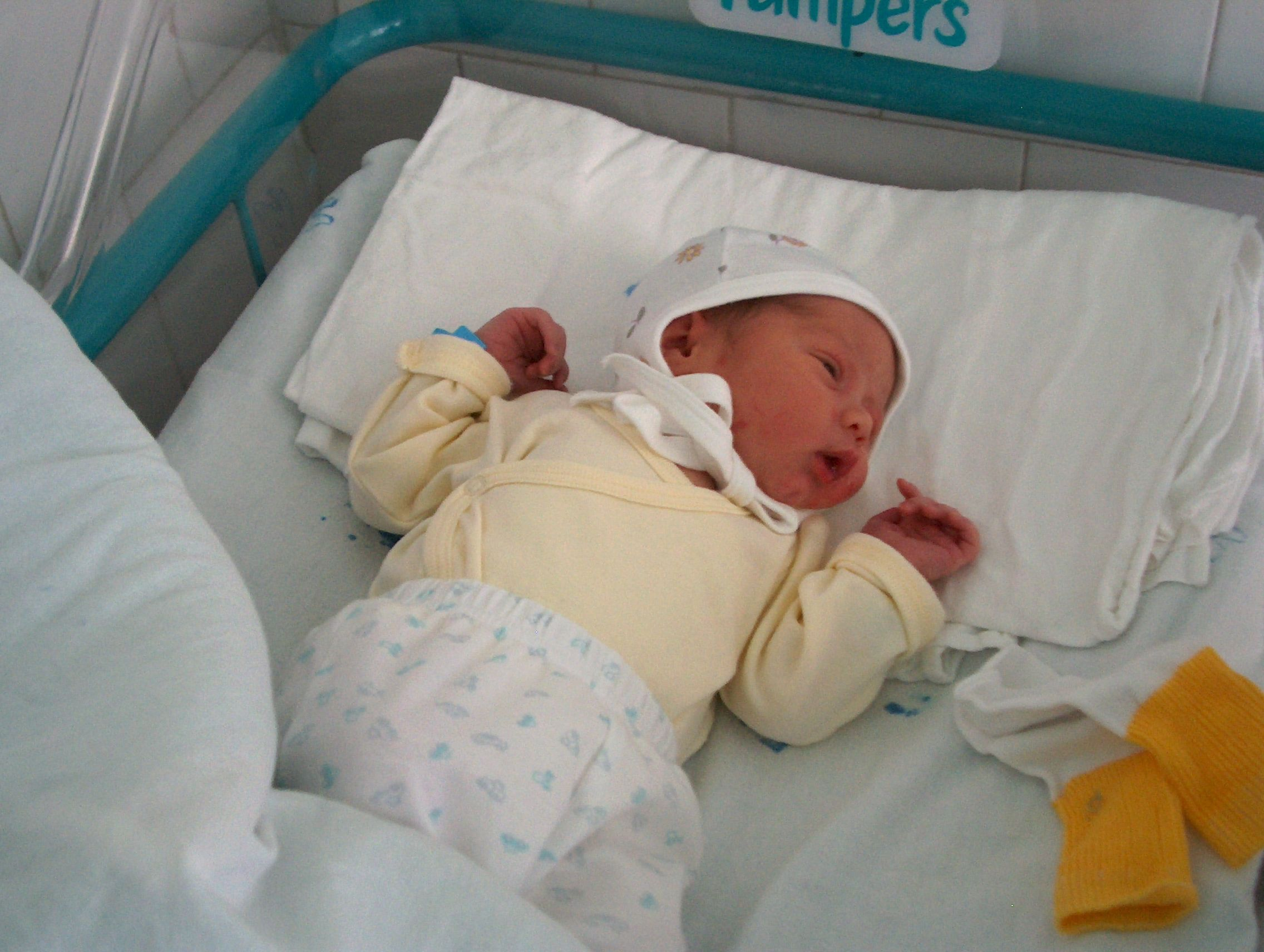 Newborn Baby